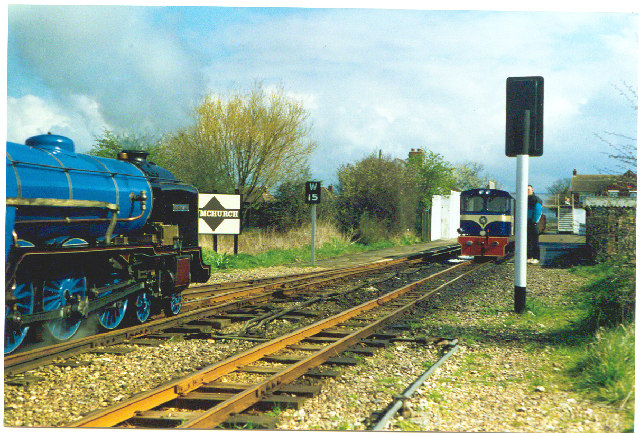 Romney, Hythe and Dymchurch Railway in Dymchurch, Kent, England.